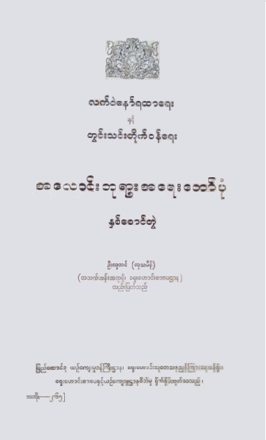 1961 copy of two versions of Alaungpaya Ayedawbon -- by Letwe Nawrahta and Twinthin Taikwun